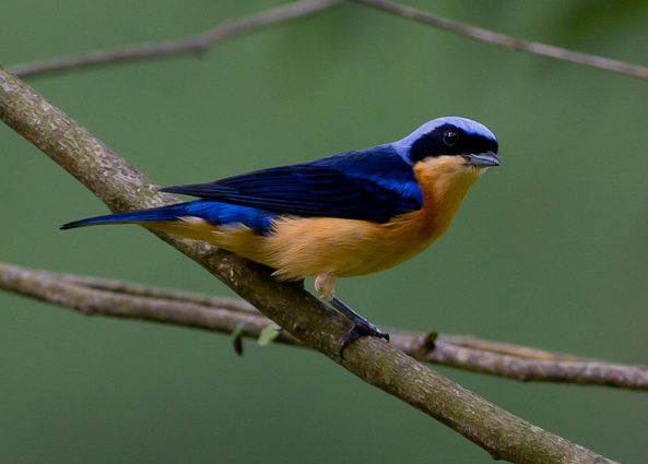 Pipraeidea melanonota, Fawn-breasted Tanager